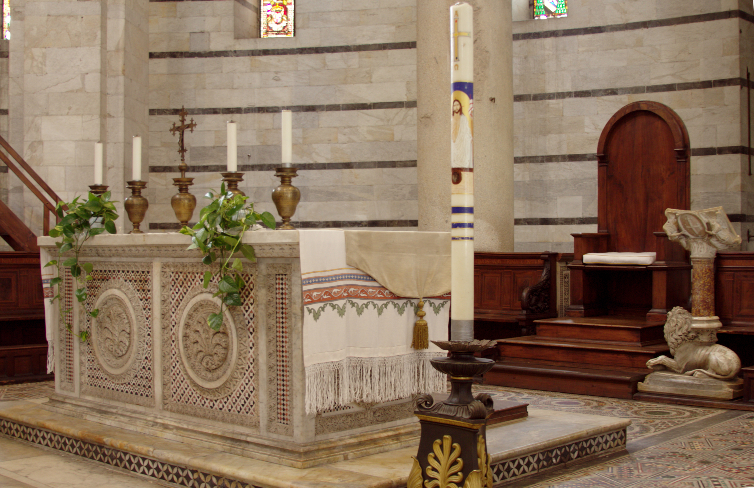 Batistery - Pisa